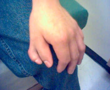 A photograph of a 27 year old male with unilateral polydactyly affecting the left thumb. The supernumerary digit had normal sensation but no joint and hence could not move independently.